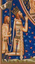 King Louis I kneeling